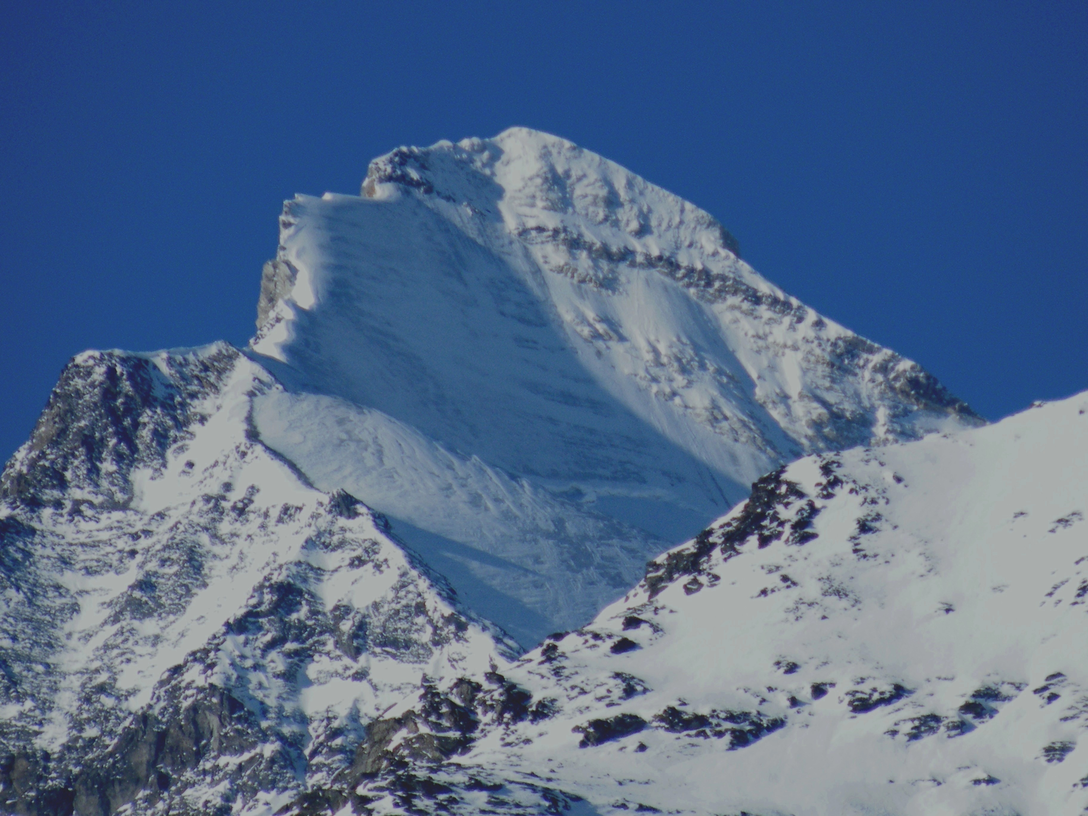 North side of the Brunegghorn mountain showing the summit, St Niklaus, Switzerland